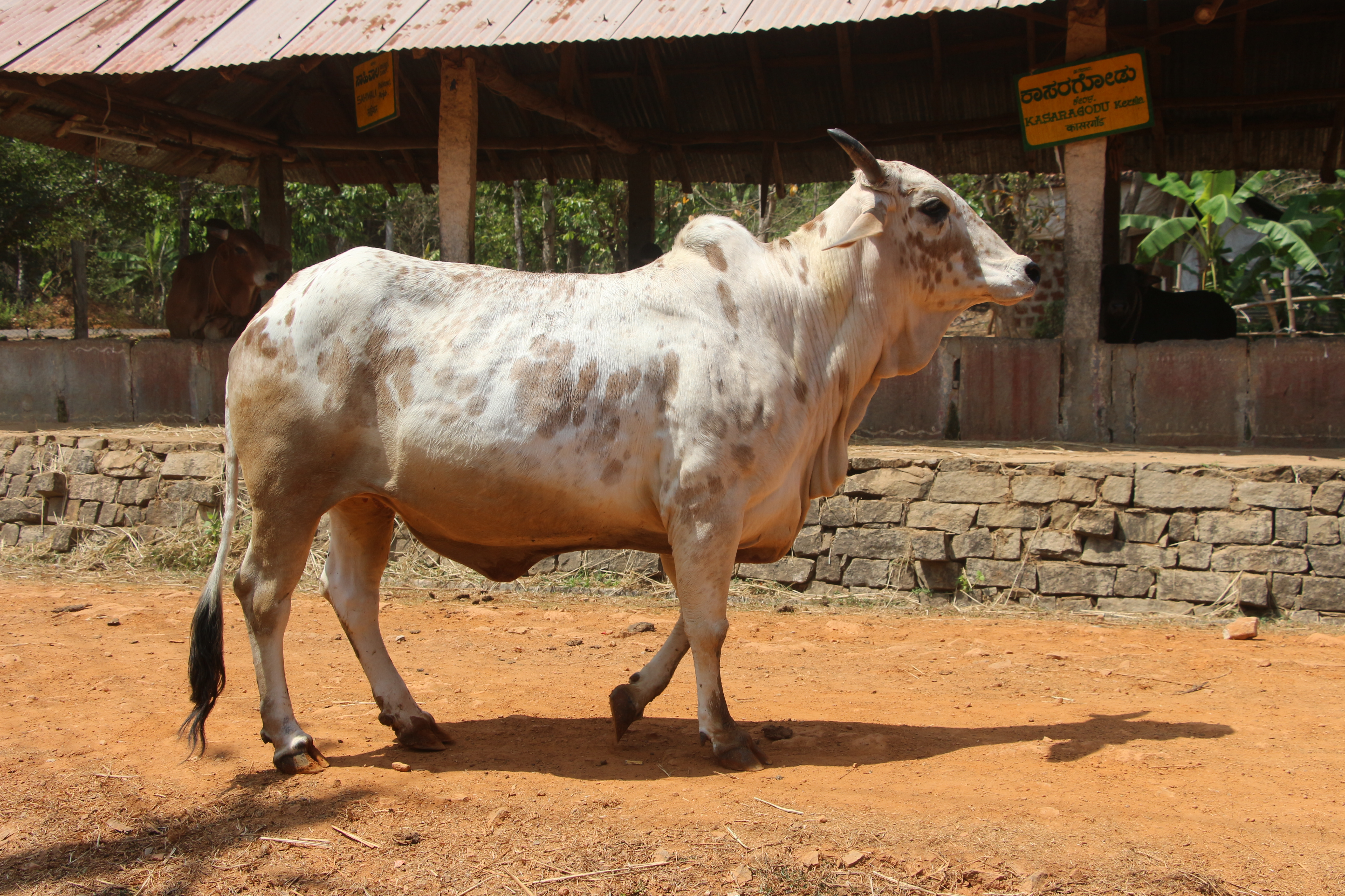 Indian cow breed Rathiಕನ್ನಡ: ಭಾರತೀಯ ಗೋತಳಿ ರಾಟಿ